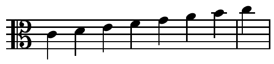 Diatonic scale on C, alto clef.